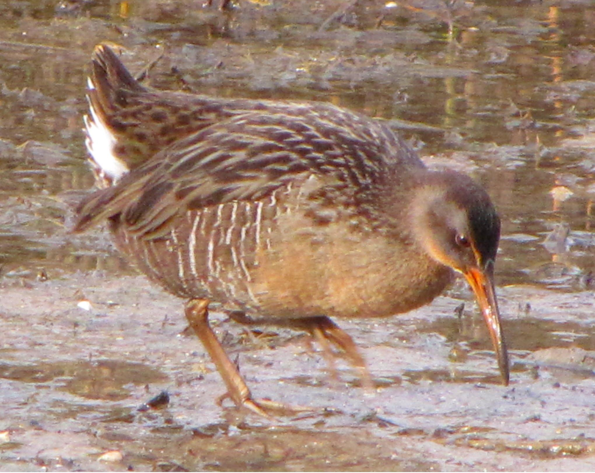 Rallus longirostris Redfish Hole hiking trail Great Florida Birding Trail Crystal River, Citrus County, Florida